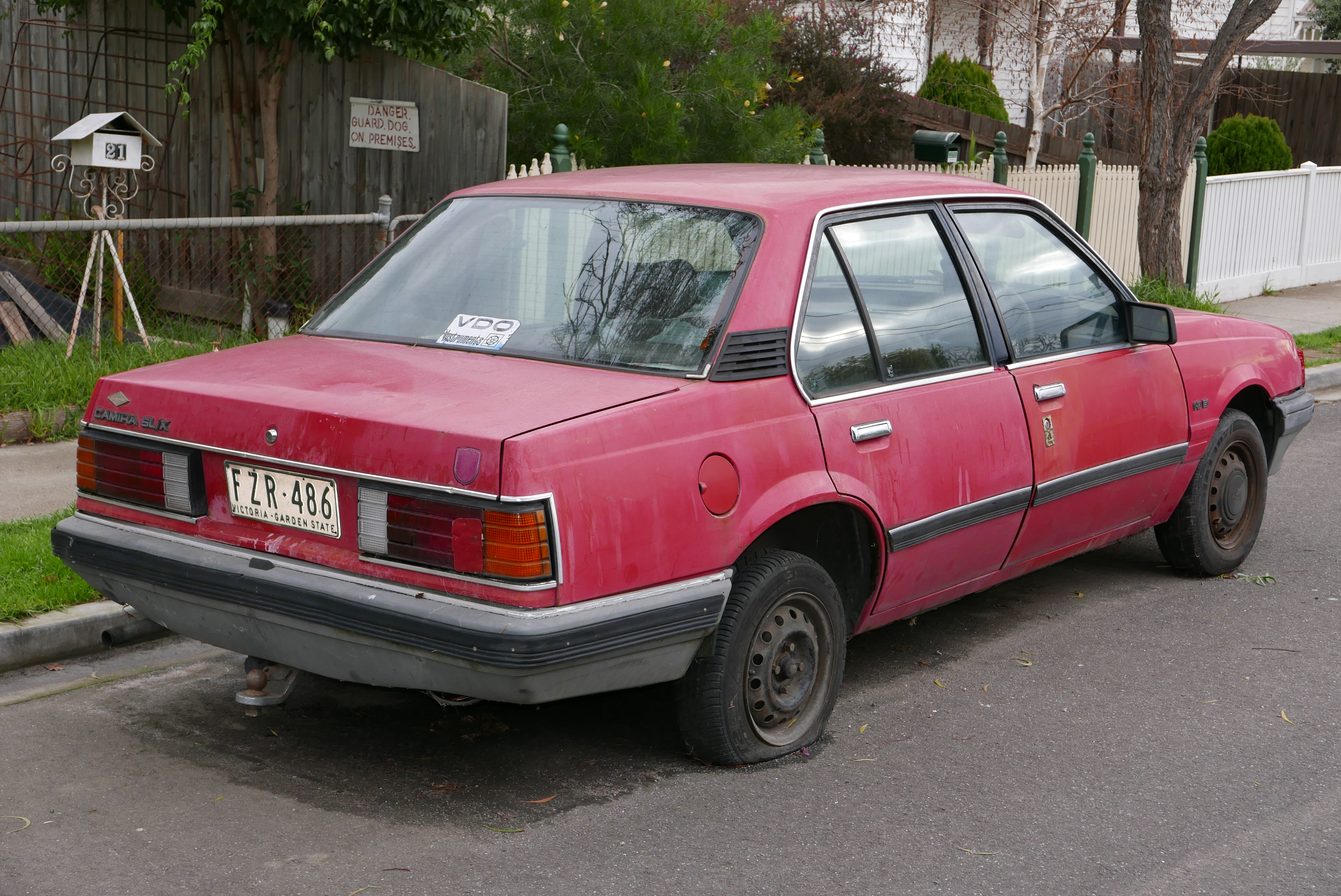 1983 Holden Camira (JB) SL/X sedan. Photographed in Fairfield, Victoria, Australia. Vehicle registration enquiry results Jurisdiction Victoria Registration FZR486 Chassis code Not available Engine code 16JH25049517 Compliance date Not available Year of manufacture 1983